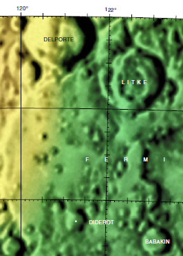 Color-coded topography LAC 101 image from USGS Digital Atlas.